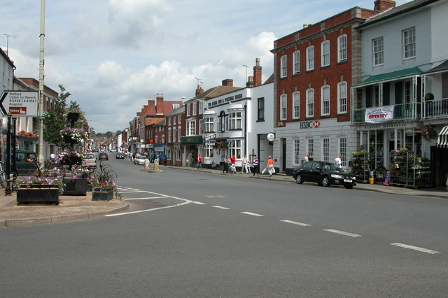 The High Street, Pershore, at the junction with Broad Street.